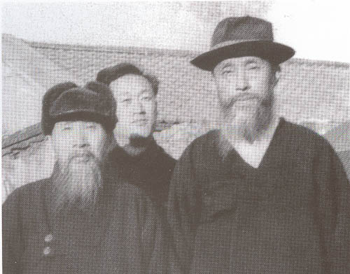 HamSeokHeon(left), his teacher Ryu youngmo(right), minister Kim Huongho